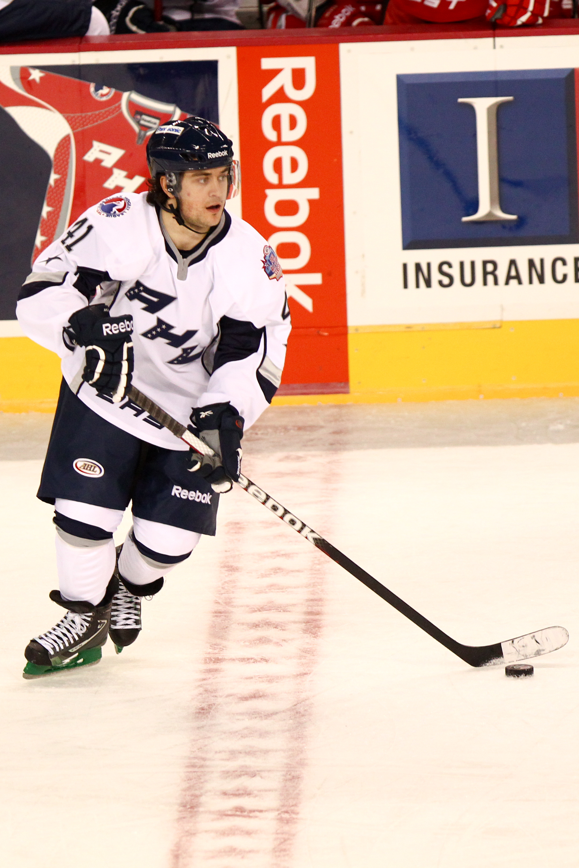 PhotoGraphics Photography/AHL The American Hockey League (AHL) AHL All-Star Game - 2nd Period Boardwalk Hall - Atlantic City, NJ Taken on January 30, 2013 using a Canon EOS-1D Mark IV.